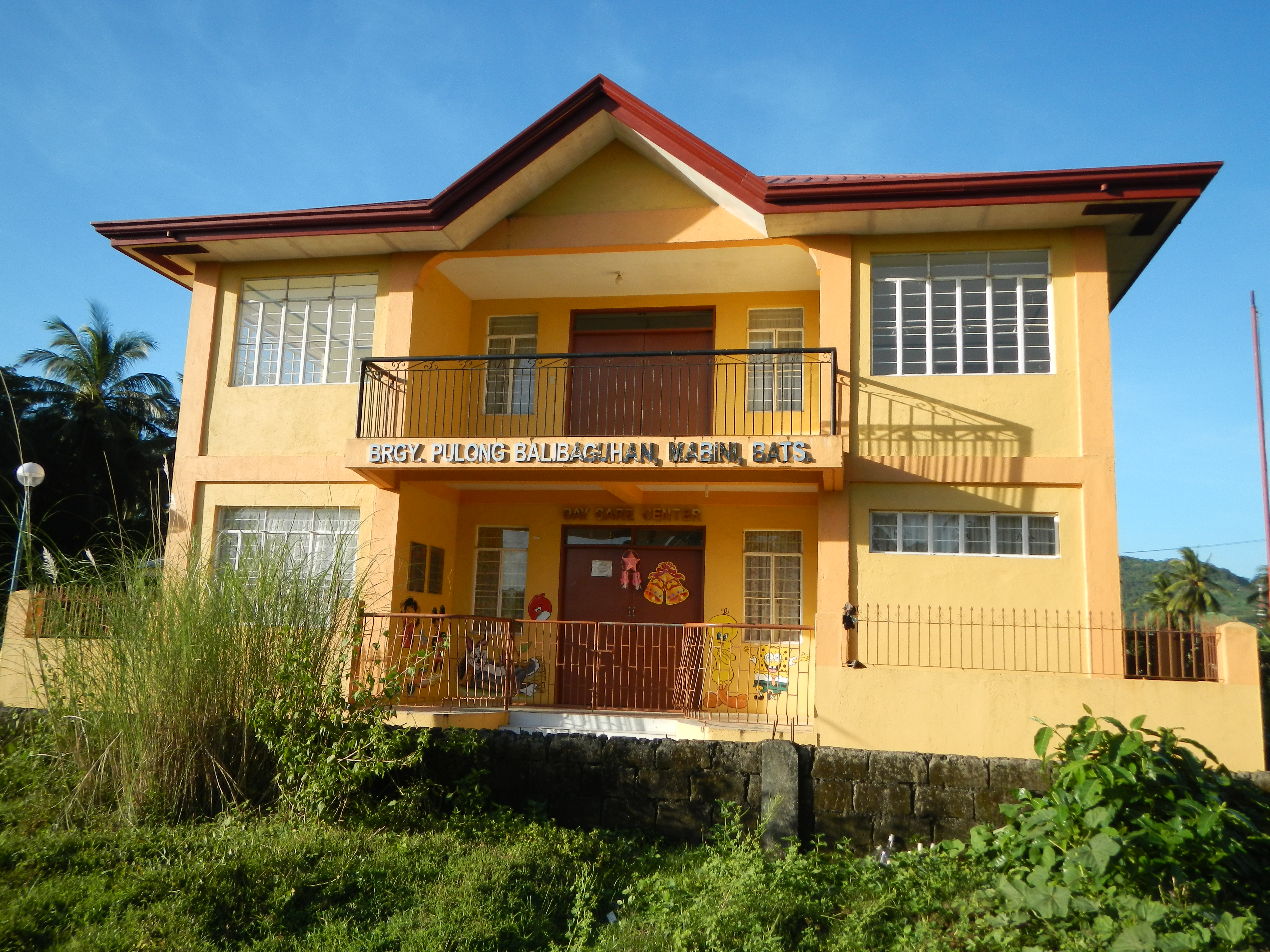 Pulong Balibaguhan, Mabini, Batangas [1] - the news Barangay Hall of this Barangay of Mabini, Batangas[2] - [3] Coordinates: 13°44'53 120°56'30"E.